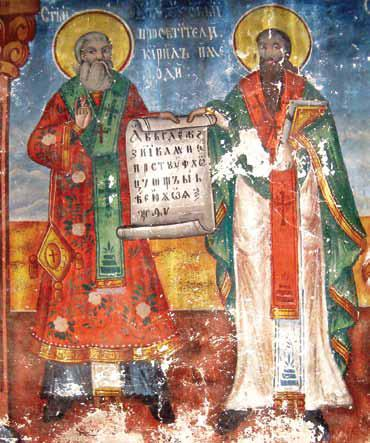 Polčište, Church of the Ascension of Christ, "Bulgarian enlighteners Cyril and Methodius" fresco, south wall.